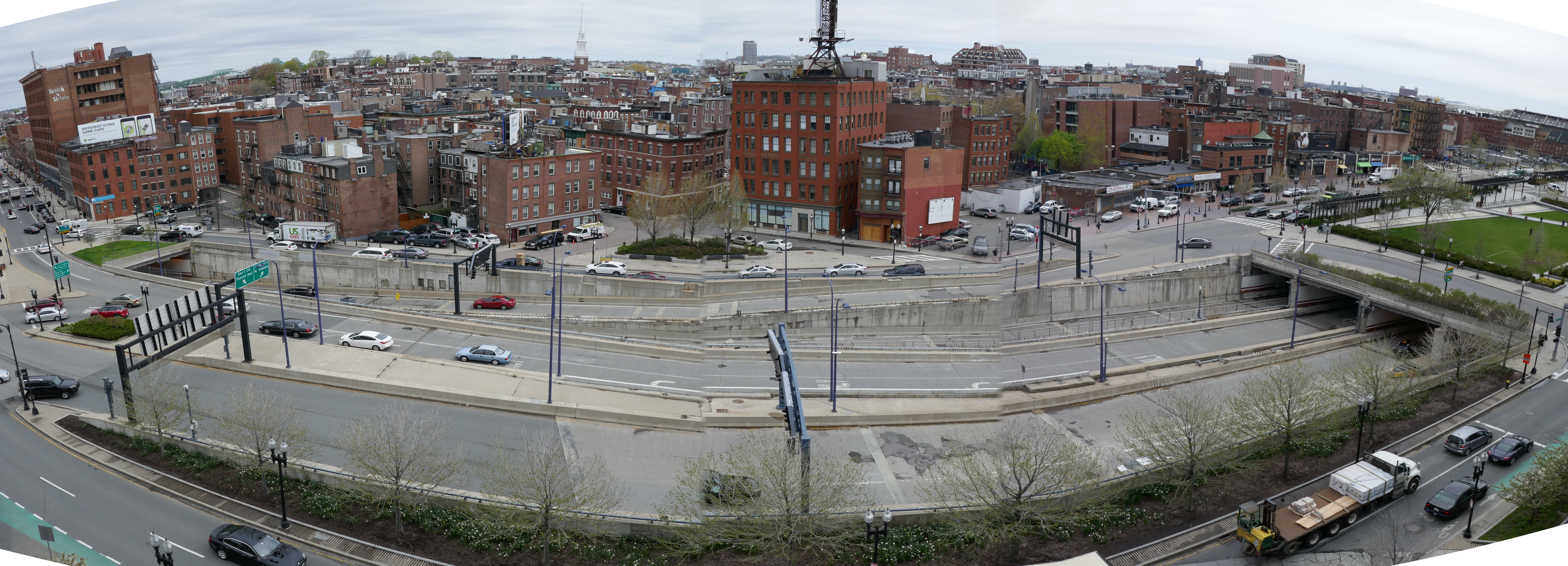 Panoramic view of Big Dig ramp Parcel 6, at the northern end of the Rose Kennedy Greenway